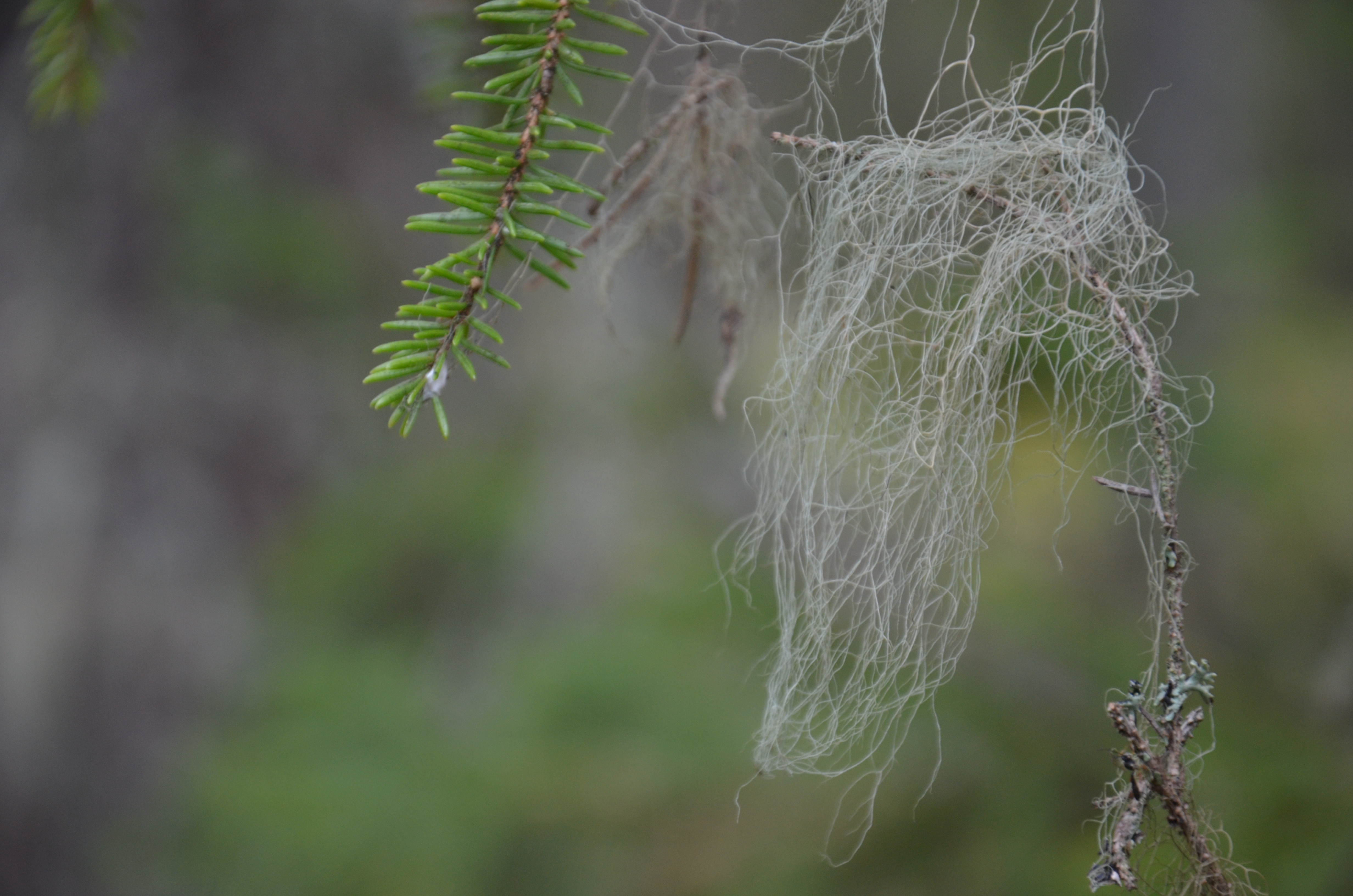 Hänglav i Fermansbo urskog (Bilden lades upp som Alectoria sarmentosa, garnlav, men visar inte denna art utan troligen Bryoria capillaris, grå tagellav.)